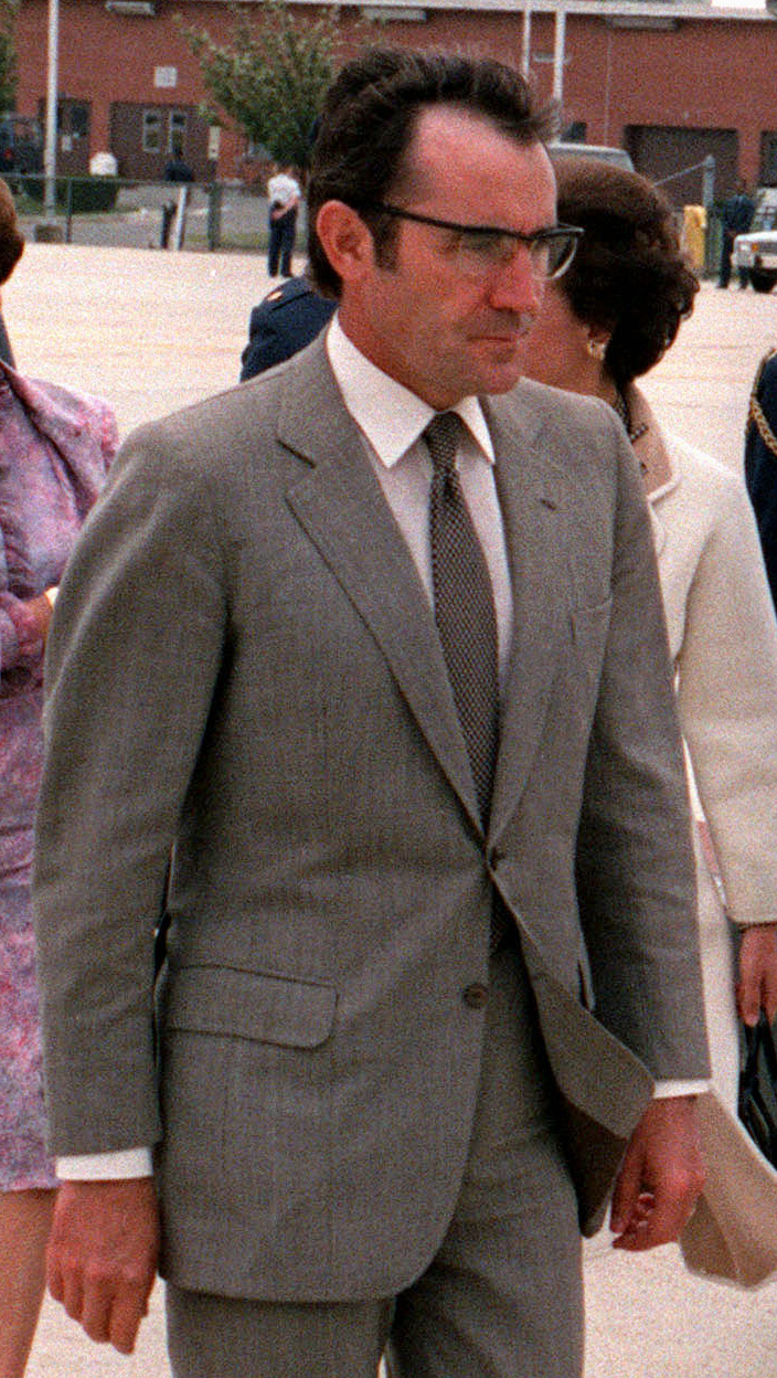 António Ramalho Eanes, President of the Portuguese Republic